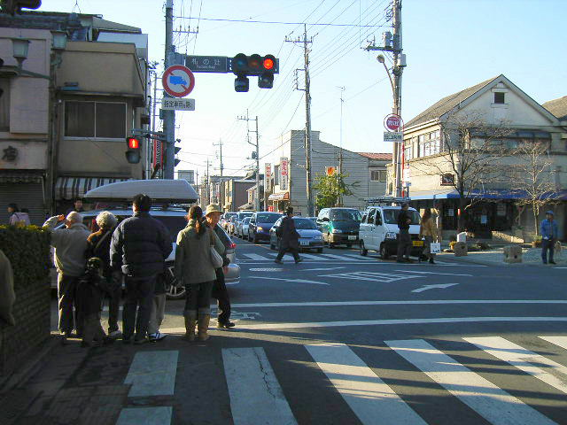 Fuda no Tsuji (Croosroad of Notice Board) of Kawagoe from east. Saitama prefecture, Japan. Center spot of Kawagoe in Edo Period. Japanese traditional buildings forms lines along the southward road from here.